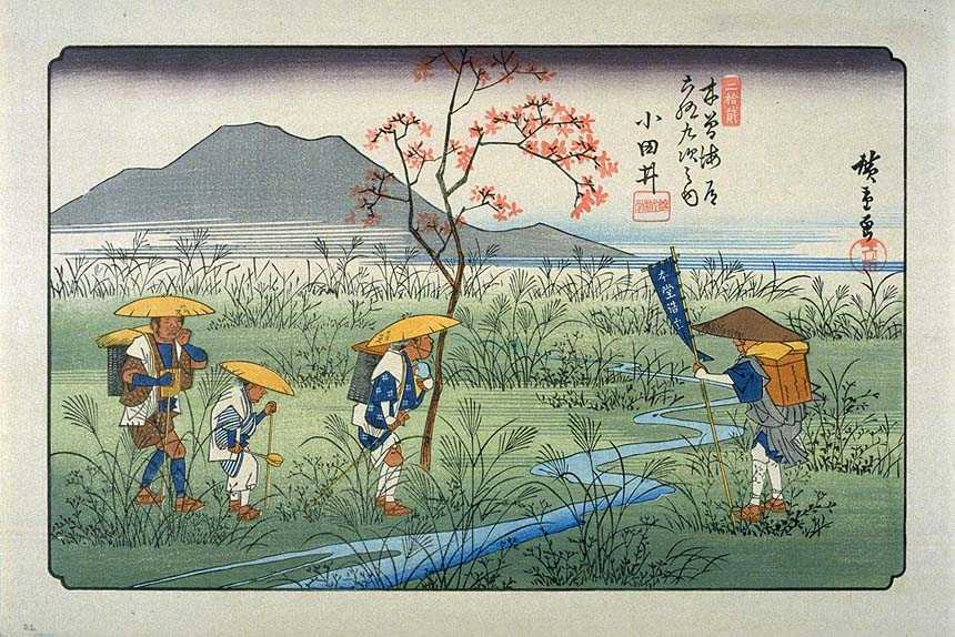 Otai on the Kisokaido, ukiyo-e prints by Hiroshige